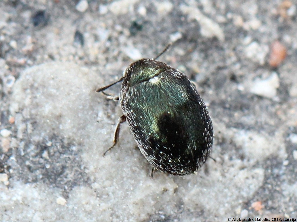 Morychus aeneus